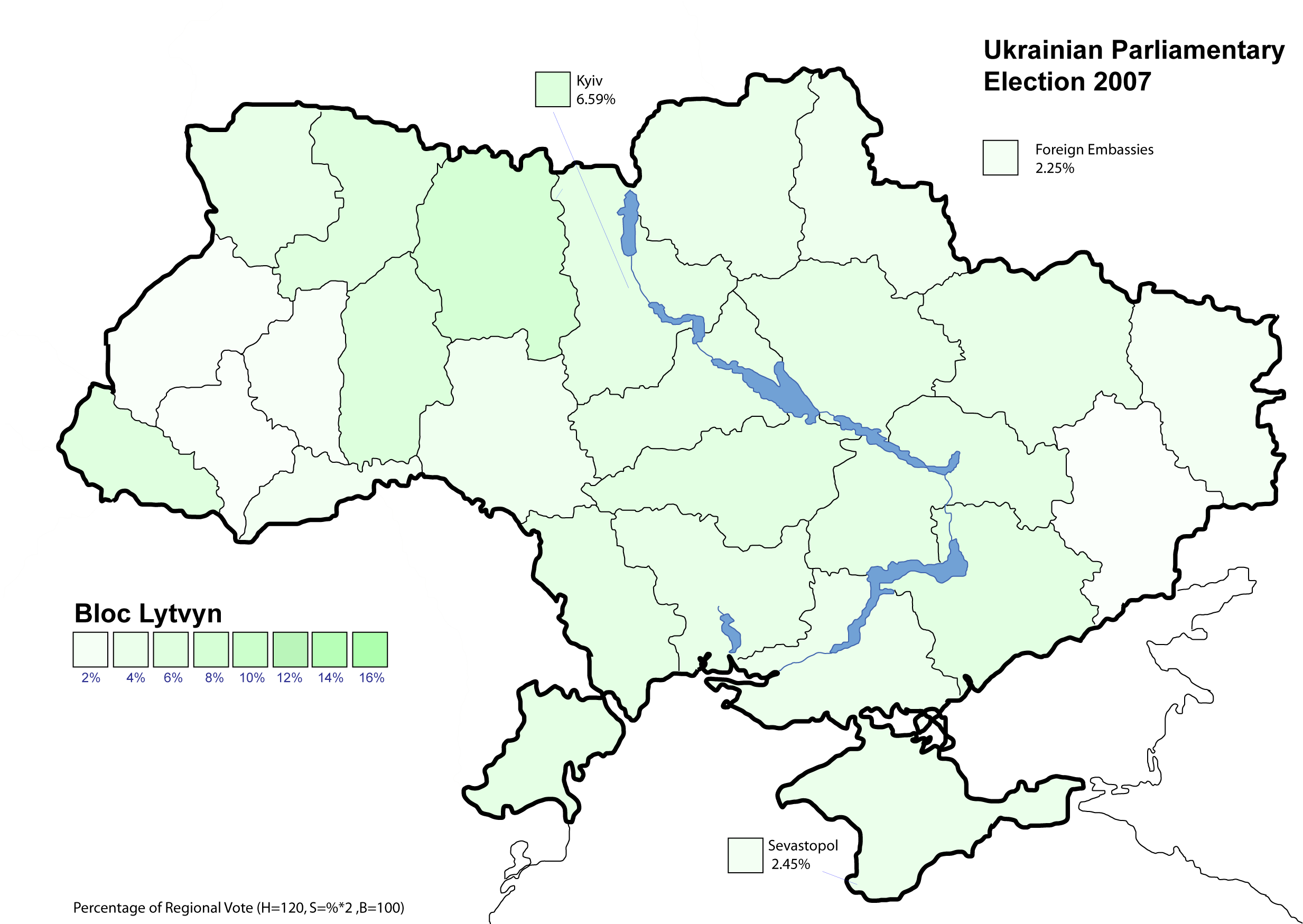 Bloc Lytvyn Party results (3.96%) - Ukrainian parliamentary election, 2007. All data is derived from the published official results provided by the Ukrainian Authority (See links and data tables below).